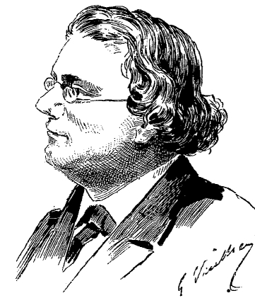 French writer Charles Monselet (1825-1888) by Gaston Vuillier (1844-1915)